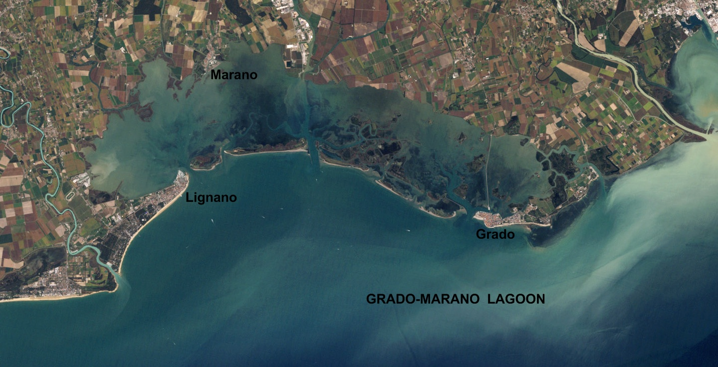 I have taken from Wikipedia Commons the file "Gravel Rivers in Northeastern Italy.jpg" and cut it to include only the Marano-Grado lagoon. Then I have added some names.